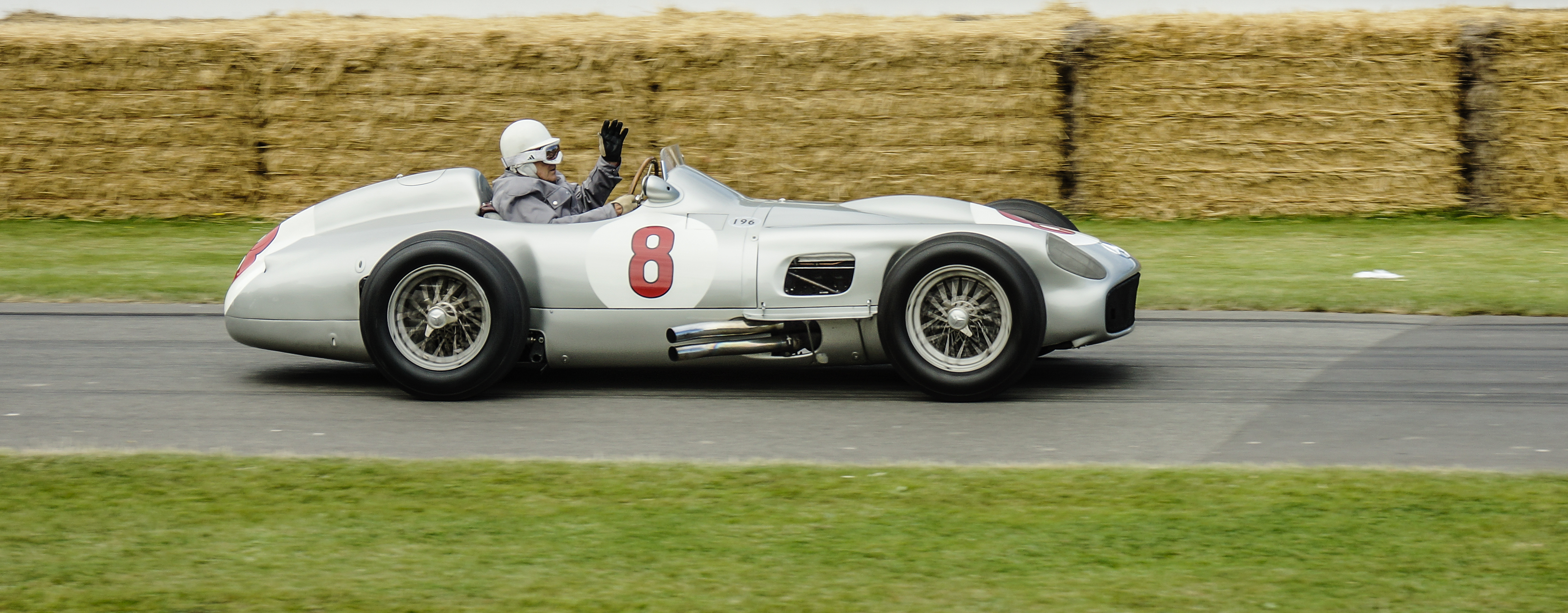 Stirling Moss driving the Mercedes-Benz W196 F1 car at the 2014 Goodwood Festival of Speed.